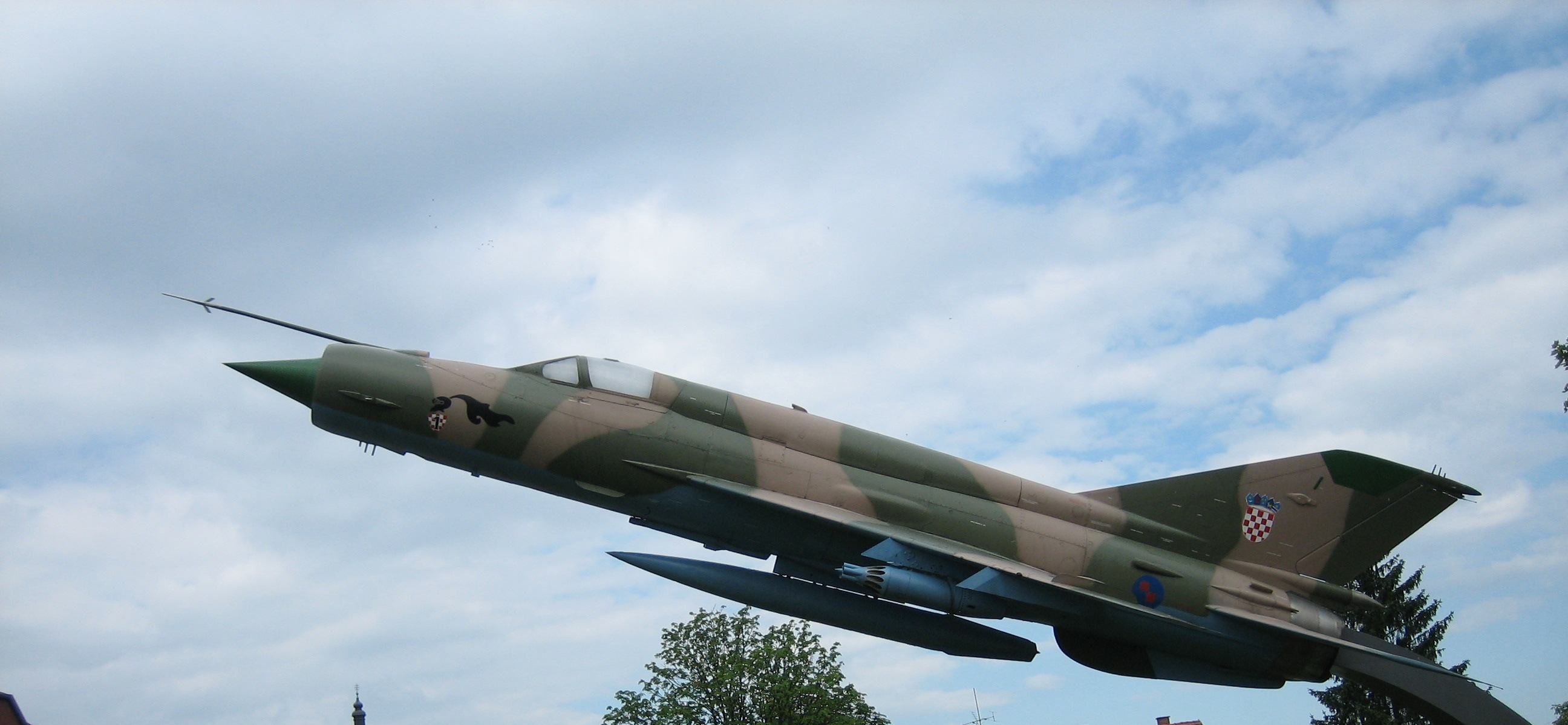 Rudolf Perešin monument